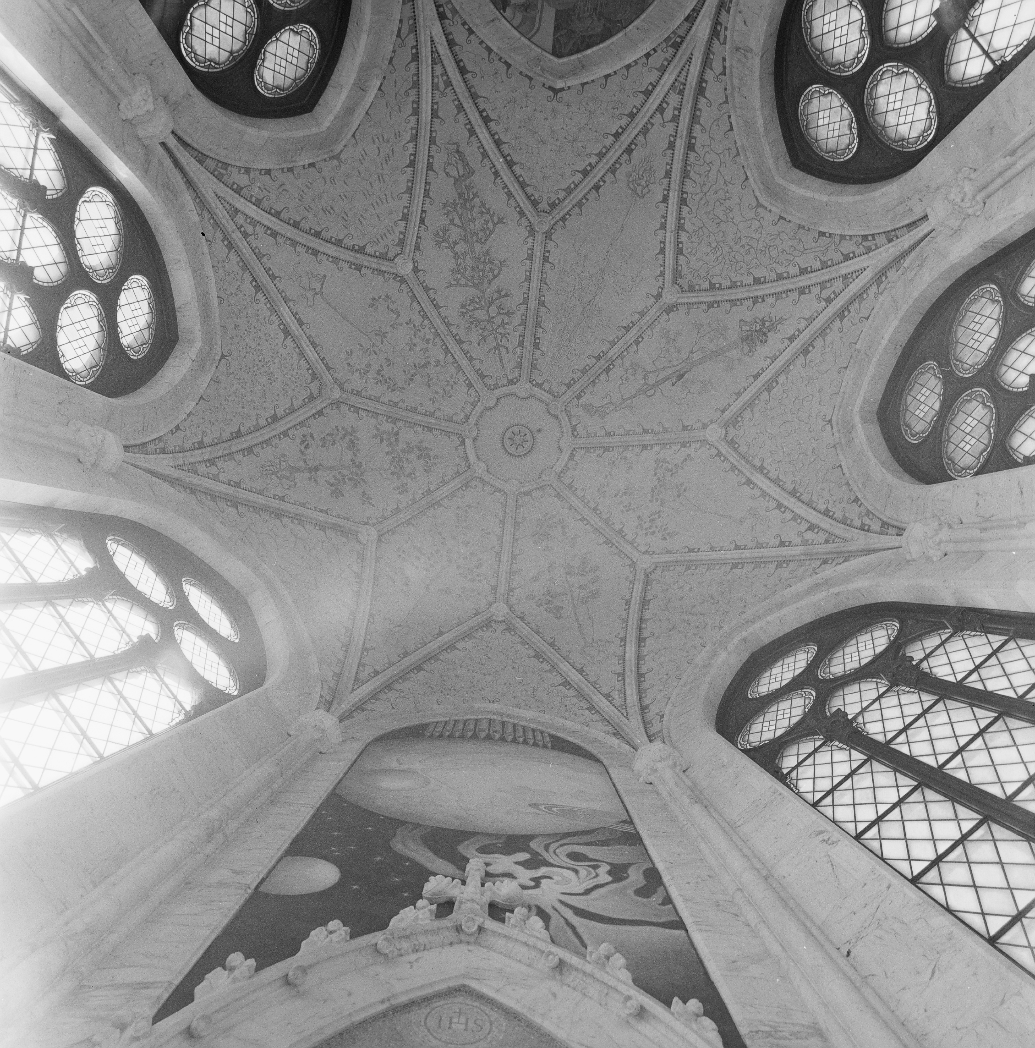 Interior of the Jusélius mausoleum, Pori, Finland. Paintings by Akseli Gallen-Kallela 1901-1903.